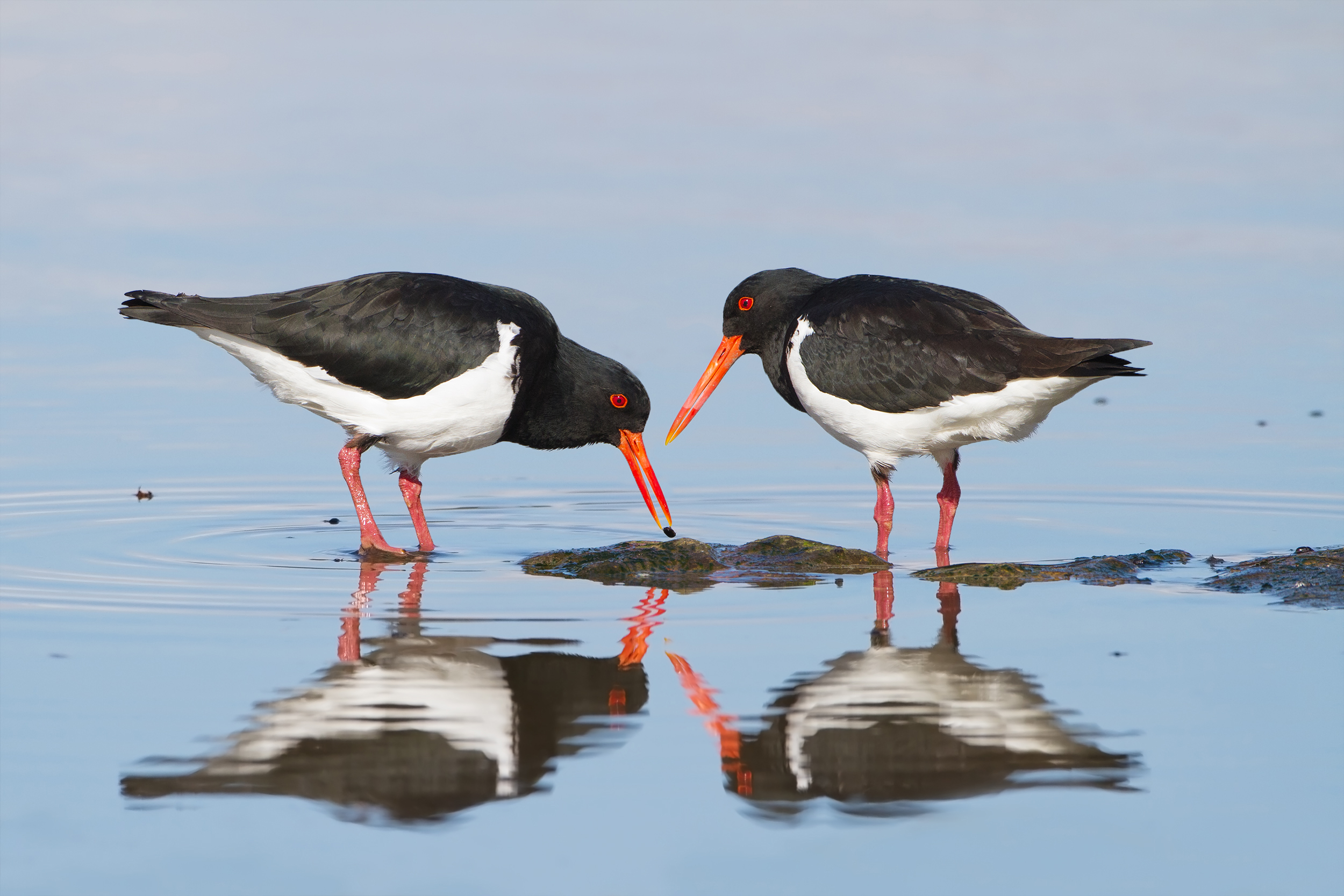 Pied Oystercatchers, Austin's Ferry, Hobart, Tasmania, Australia